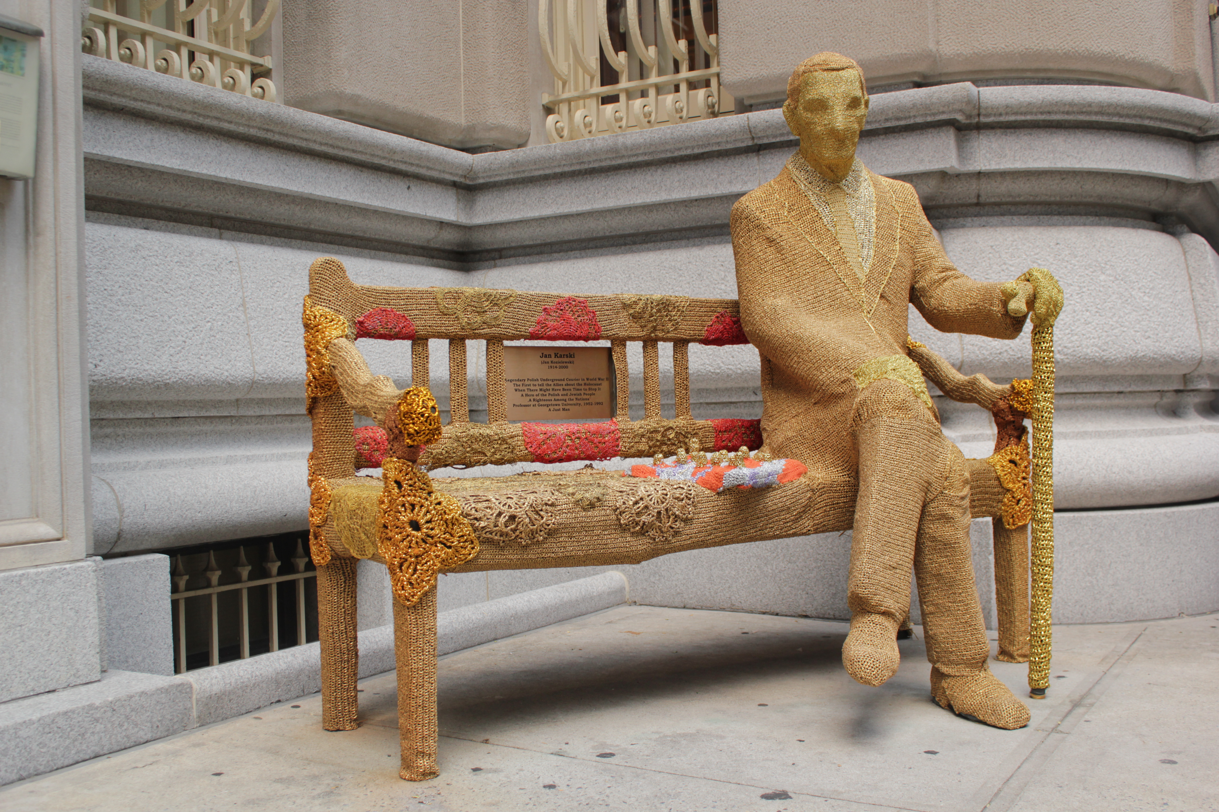 Jan Karski corner NYC yarn bombing